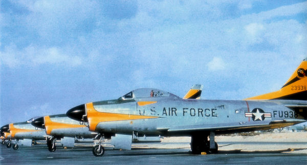 North American F-86Ds of the 496th Fighter-Interceptor Squadron, Hahn Air Base West Germany Source: Menard, David W., Before Centuries. Photo credited as United States Air Force Photo, USAF Historical Research Agency, Maxwell AFB Alabama